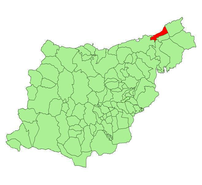 Pasaia municipality in the province of Gipuzkoa